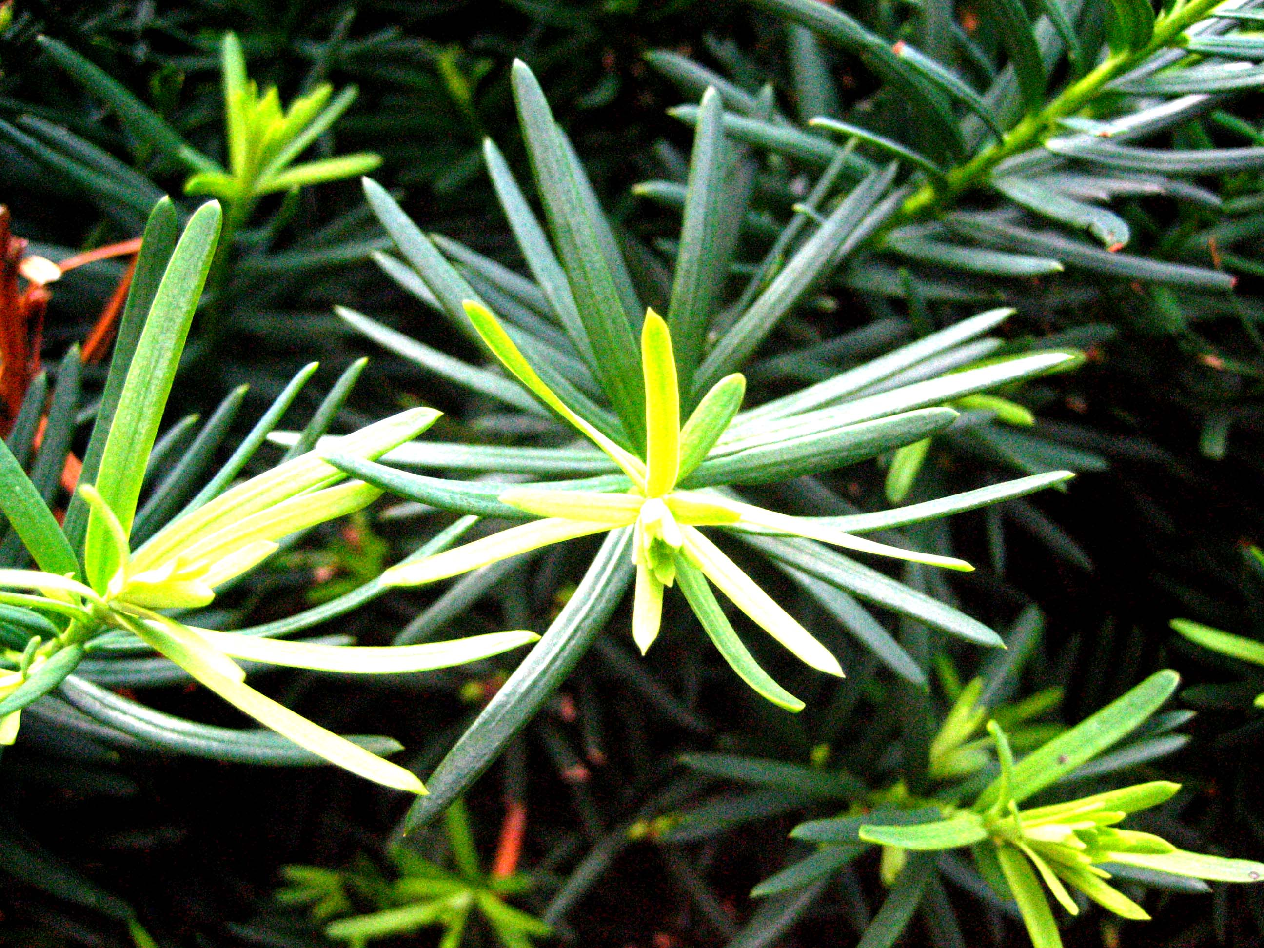 Close-up of yew (Taxus) tree needles in the sunshine.